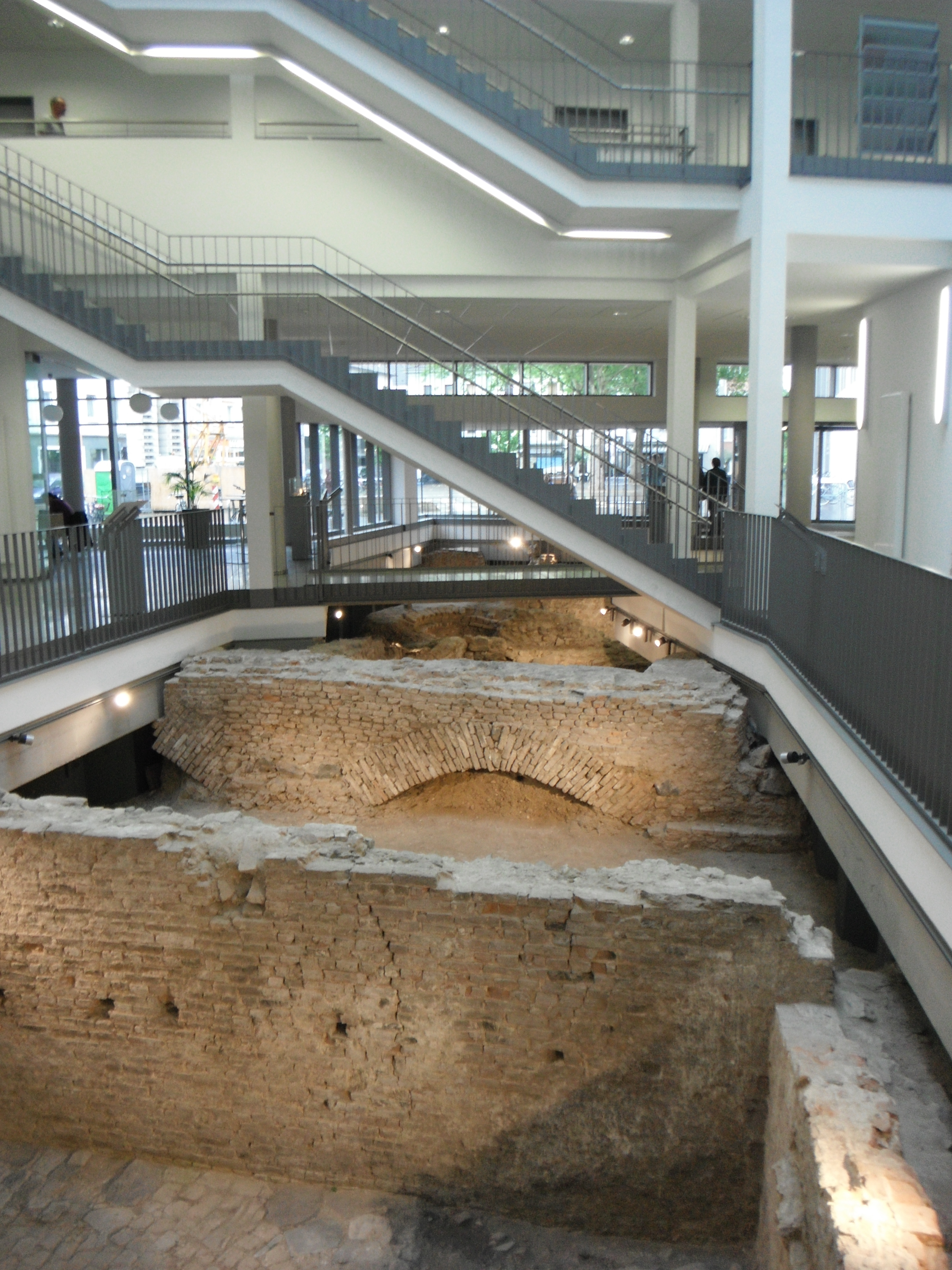 Romaneum Neuss